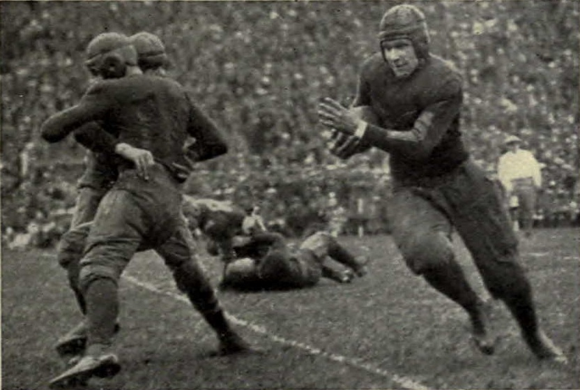 Photograph of Bo Molenda running with the ball against Minnesota in November 1925 as Bennie Oosterbaan blocks to the left.